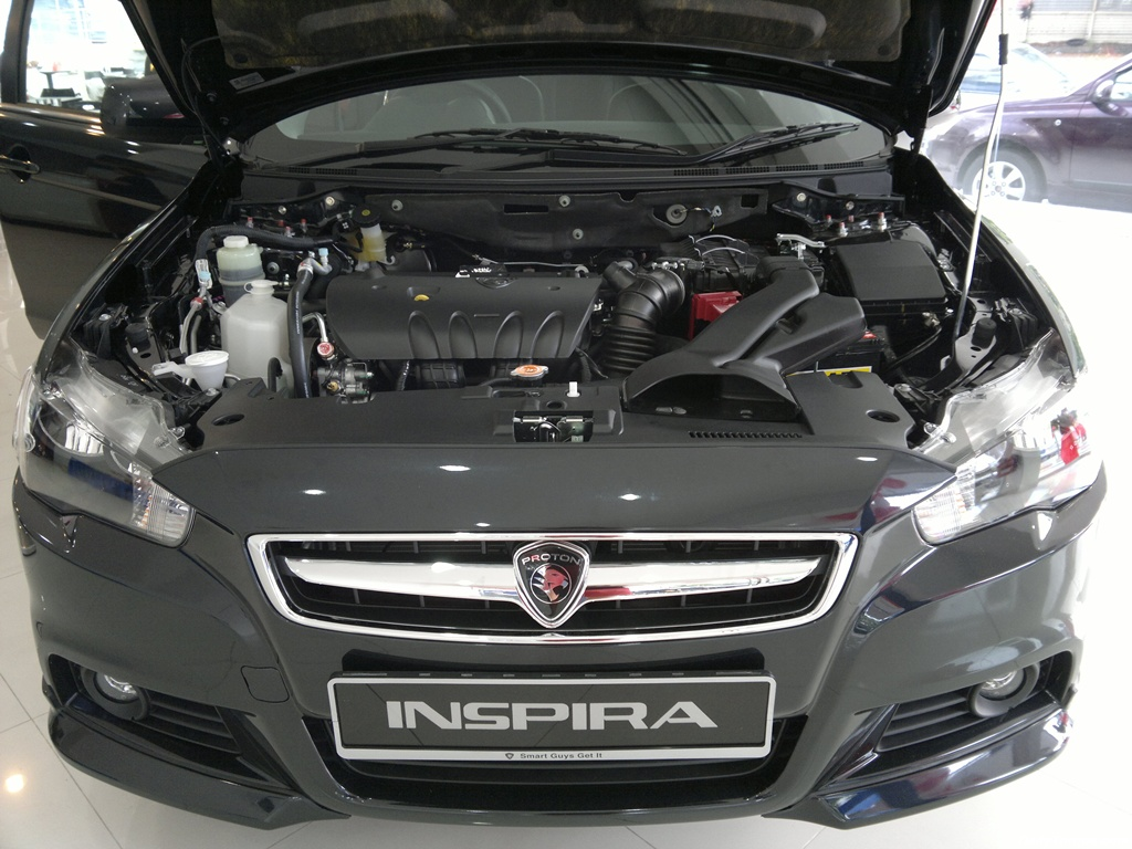 This is the Inspira Engine based on the Mitsubishi 4B11 Engine. Check it out at Mitsubishi_4b11.